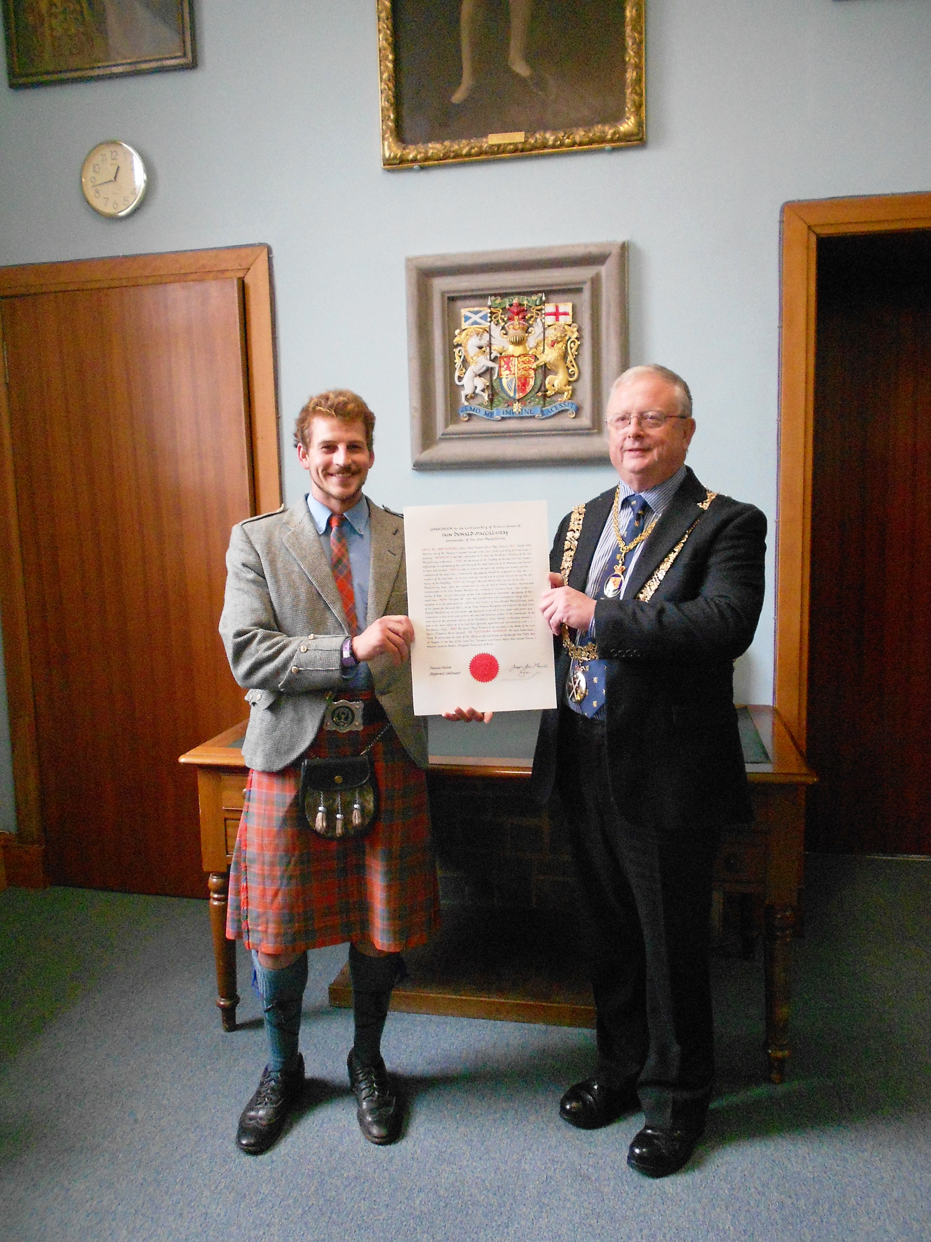 Iain MacGillivray receives his five year commission as Commander of Clan MacGillivray from the Lord Lyon, Dr Joseph Morrow QC